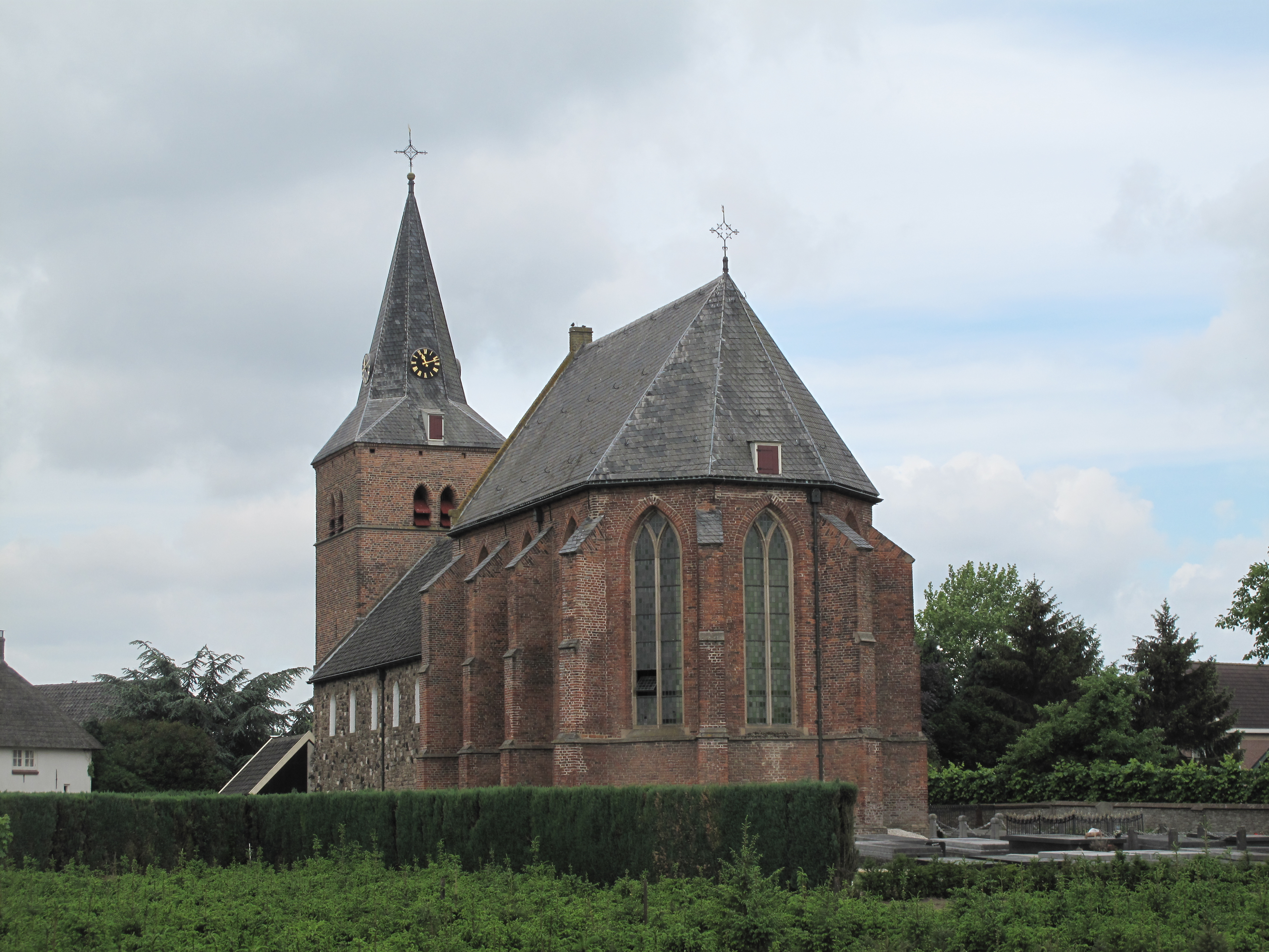 Andelst, church